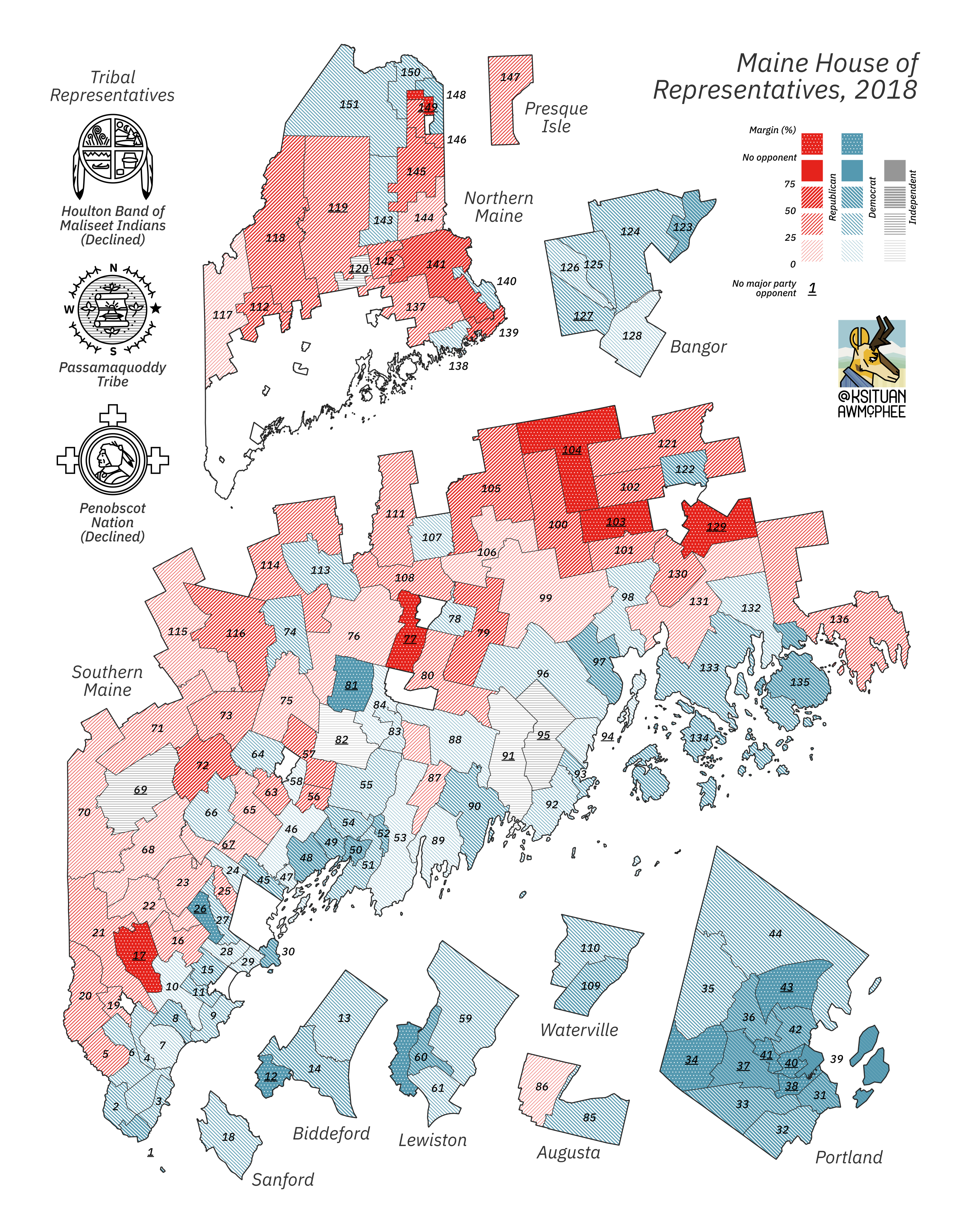 A series of state legislative election maps, created from open data during the summer of 2020. Their common visual style is designed to accomodate all of the unique features of American democracy. They were created using QGIS and Inkscape, two free programs. Please use freely and contact the author with any inquiries about visualizing election data with open-source tools.